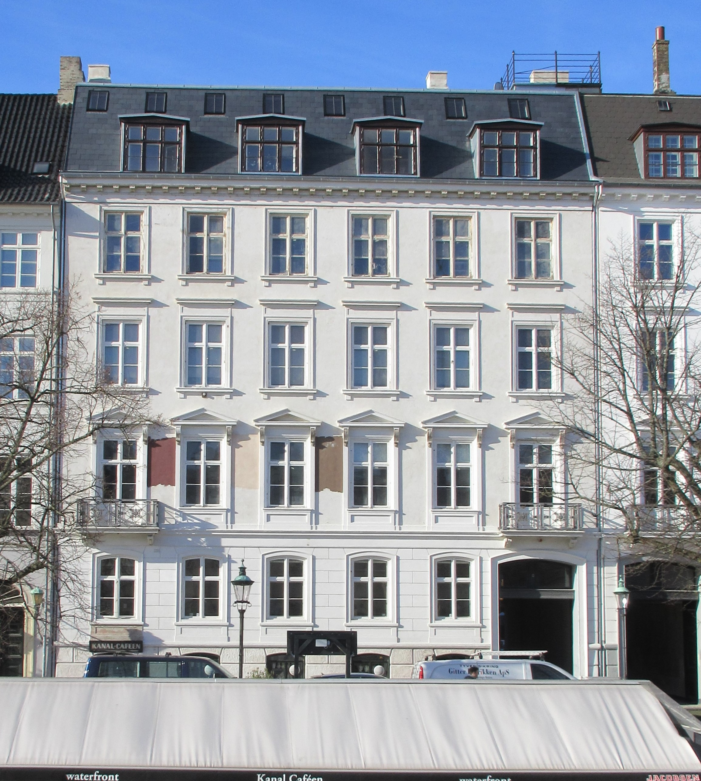 Frederiksholms Kanal 18 in Copenhagen, Denmark